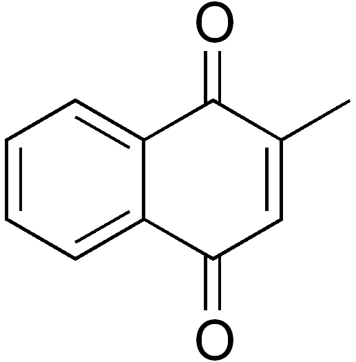 Chemical Structure of Menadione